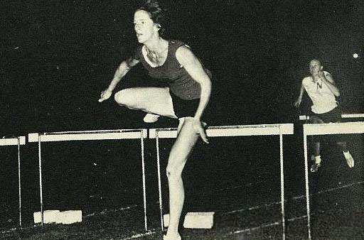 Avis McIntosh (born 19 May 1938) is a former New Zealand sprinter.